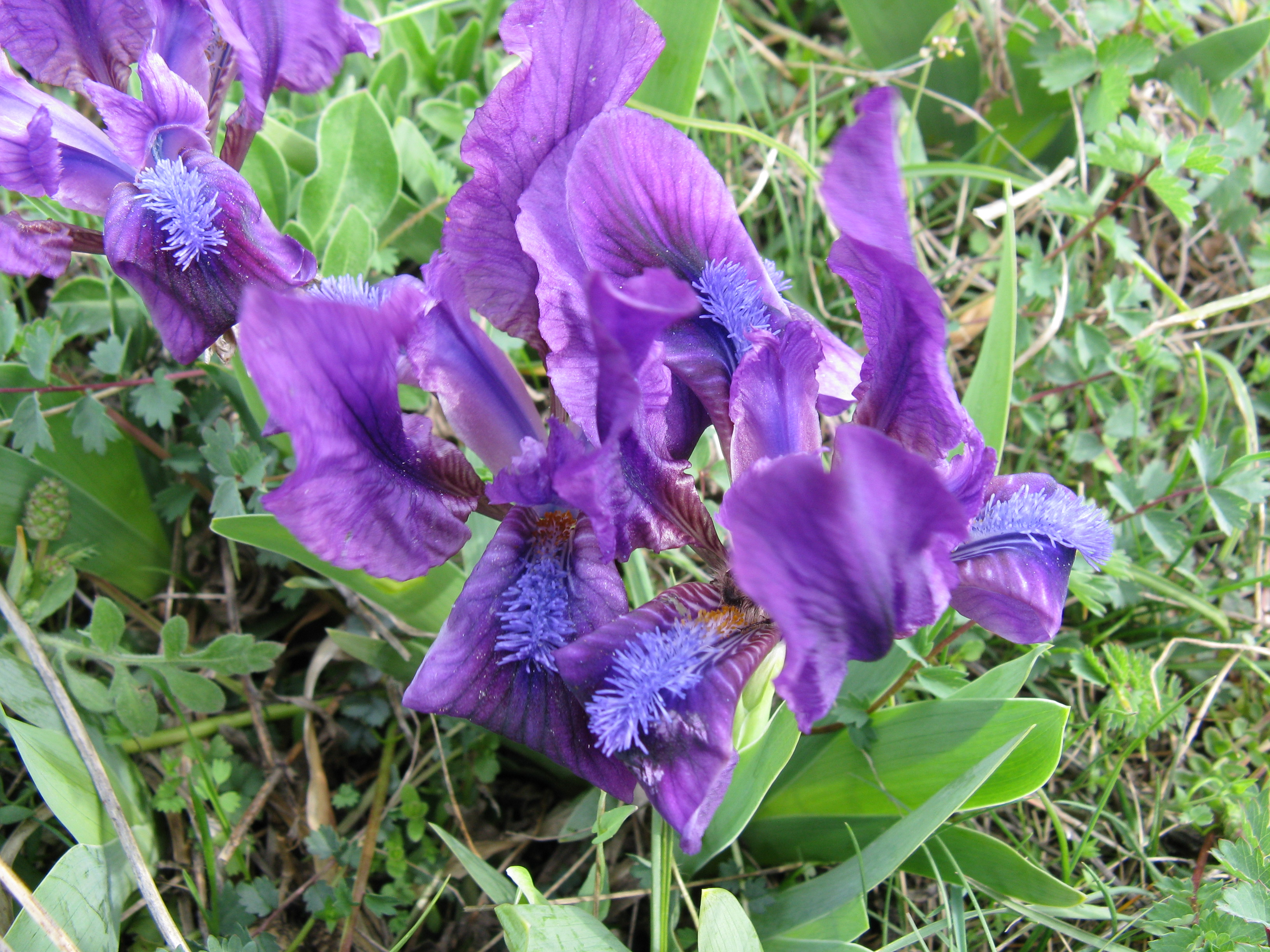 Iris aphylla in April, from Kő-hegy, Budaörs, Hungary